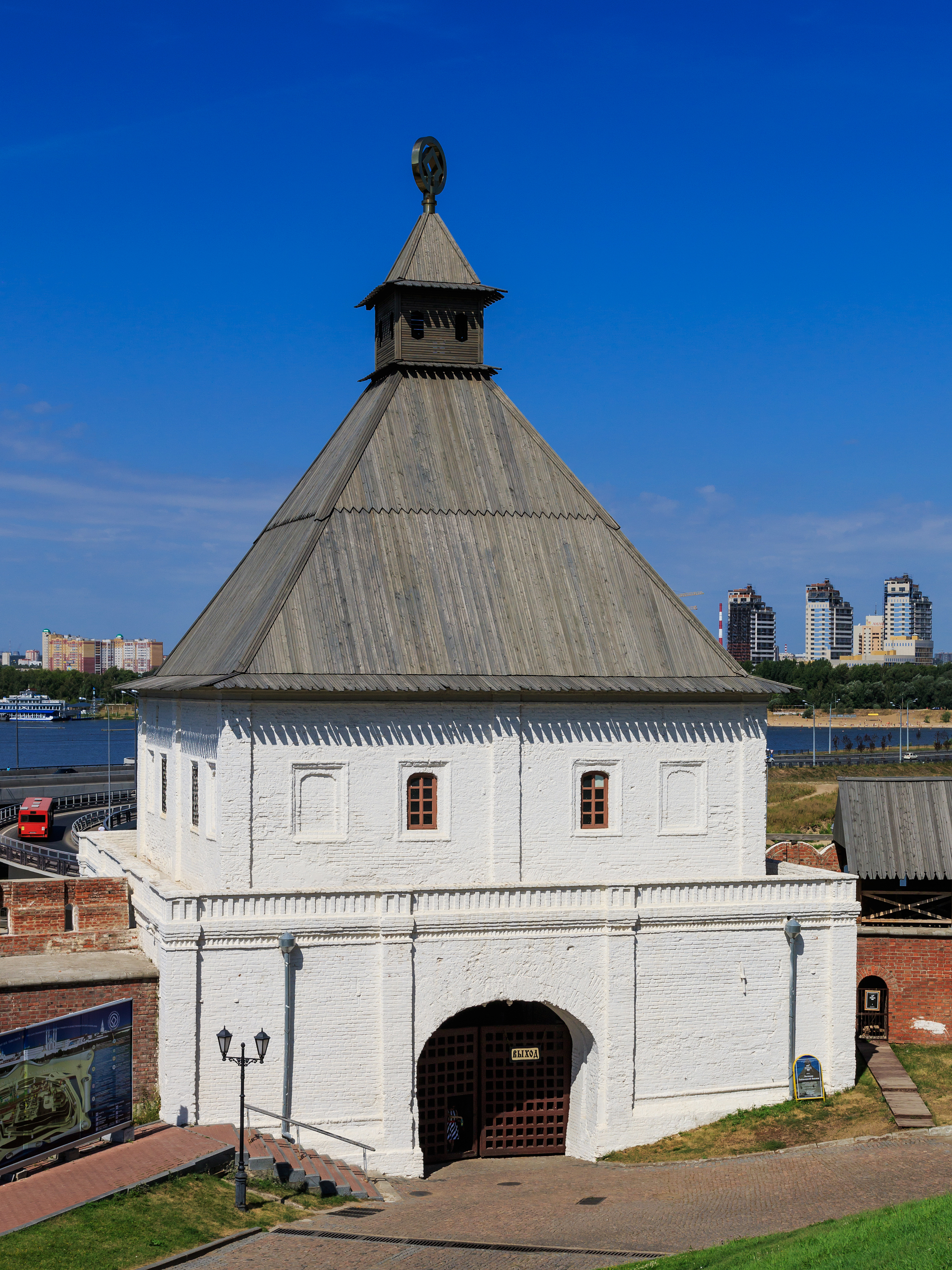 Taynitskaya Tower of the Kremlin in Kazan, Russia